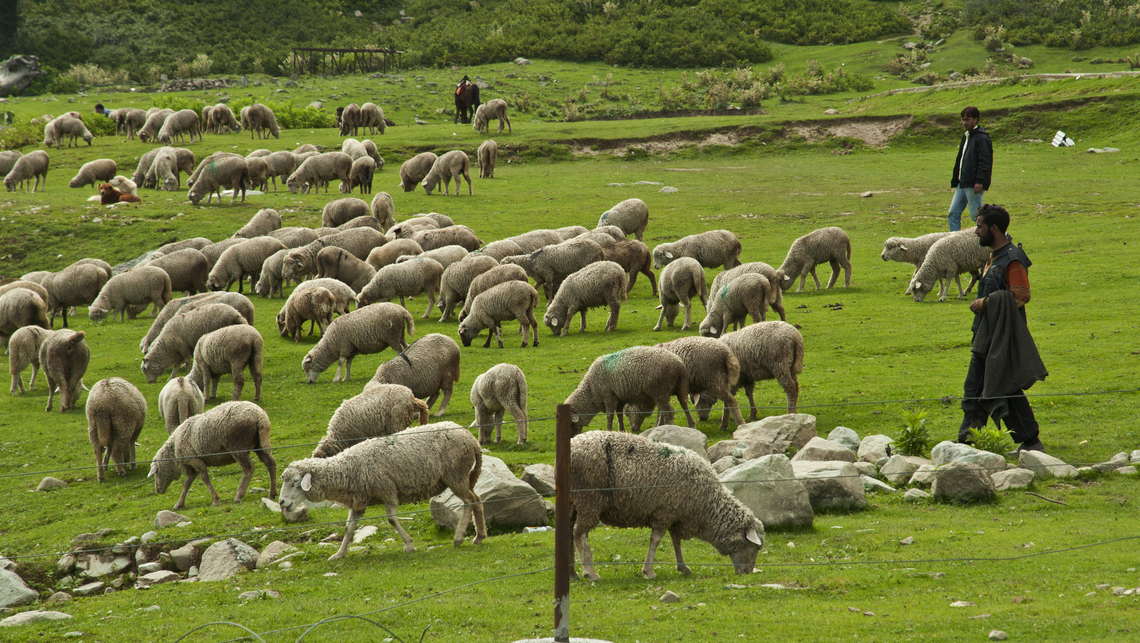 kashmir